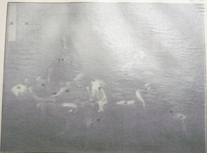 Le Testament d'Eudamidas